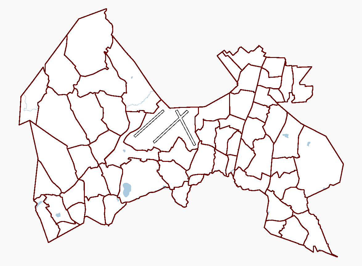 District location map of Vantaa, Finland